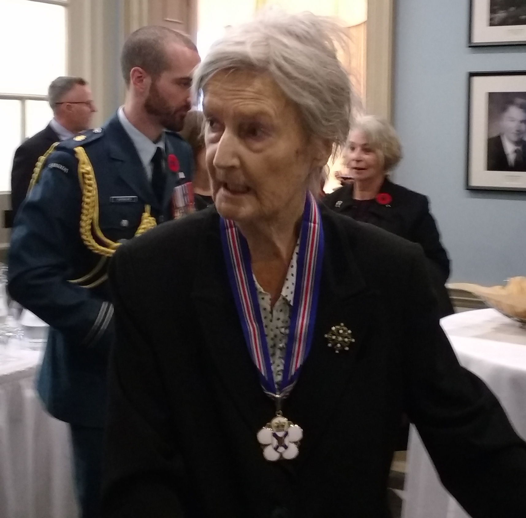 Historian and author Janet Kitz at the Order of Nova Scotia investiture ceremony November 6, 2018, Province House, Halifax, Nova Scotia, Canada. Kitz received the Order of Nova Scotia for her work in education and public history, notably for her work exploring the 1917 Halifax Explosion.